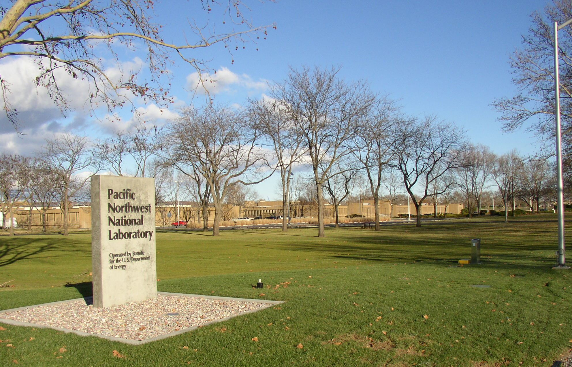 The main campus of the Pacific Northwest National Laboratory, Richland, Washington, USA.